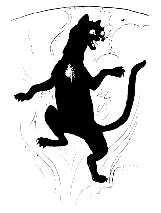 Scan illuatration on page of book in a series of fairy tales. A warning to children.